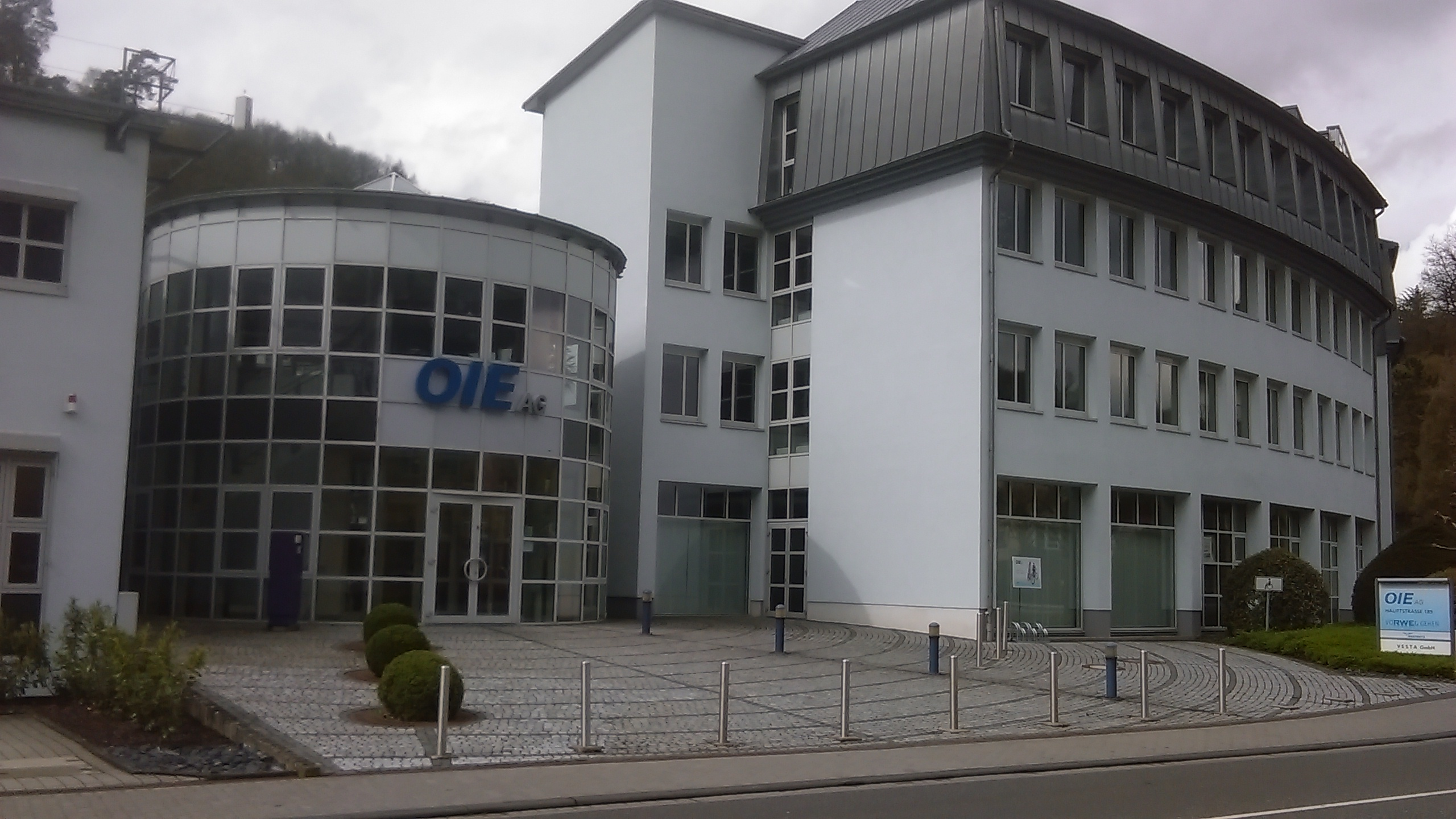 supplier of electric energy OIE /RWE Group Idar-Oberstein